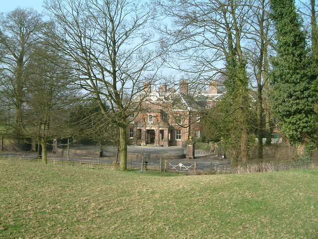 Betley Court Betley Court through the trees